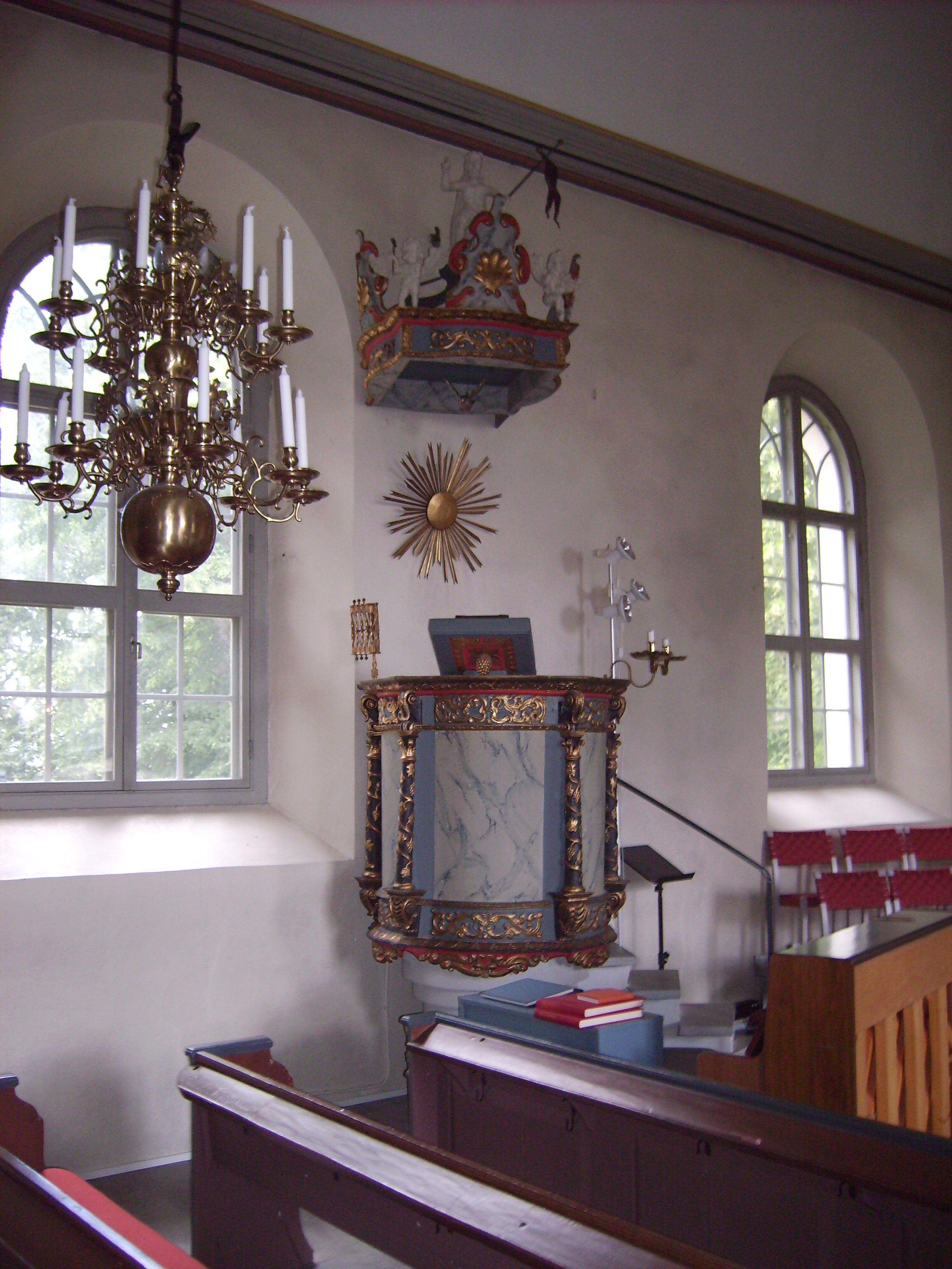 Styrstad church, outside Norrköping. Diocese of Linköping.